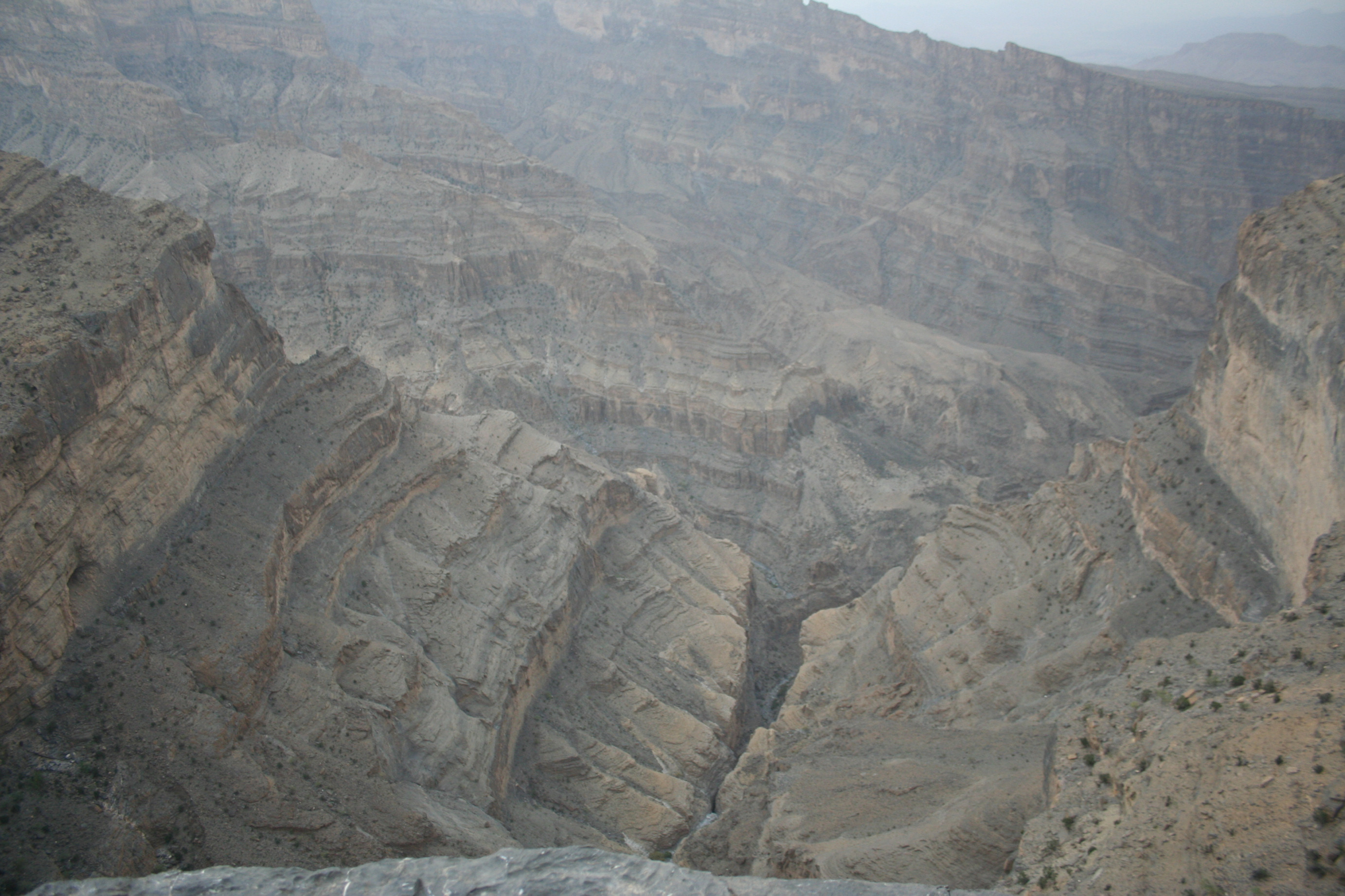 Gorge seen from the Jebel Shams, the highest peak of the Jebel Akhdar, the Hajar Mountains, Oman and the eastern part of Arabia.